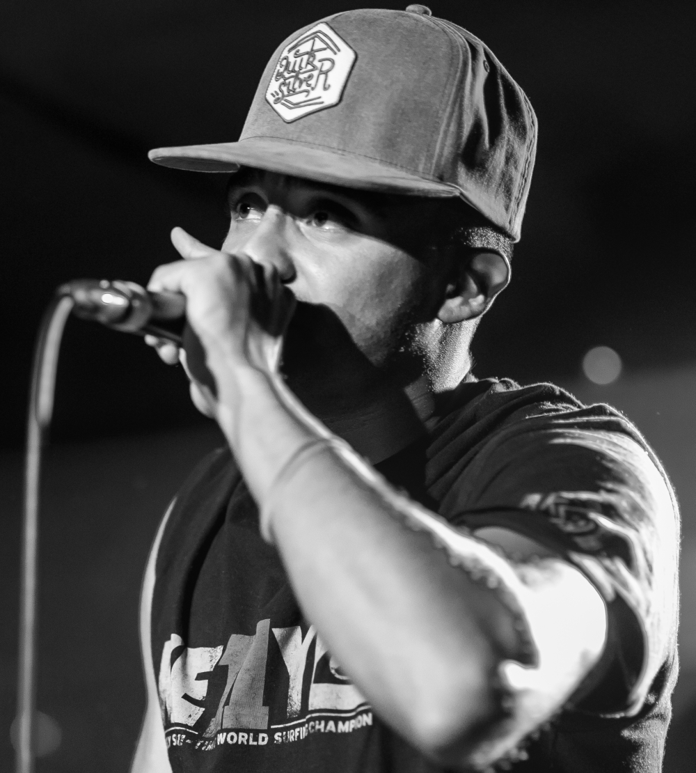 Gino Clavuot, rapper, Zurich/Lower Engadine, Switzerland.